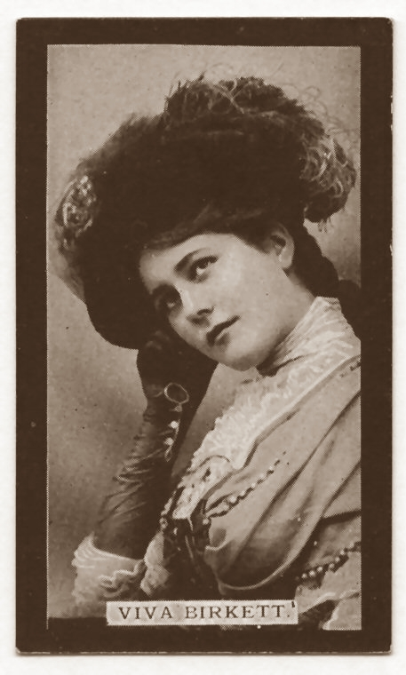 Actress Viva Burkett